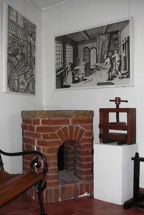 Memory of the Museum of book in Žďár nad Sázavou in the Regional museum.